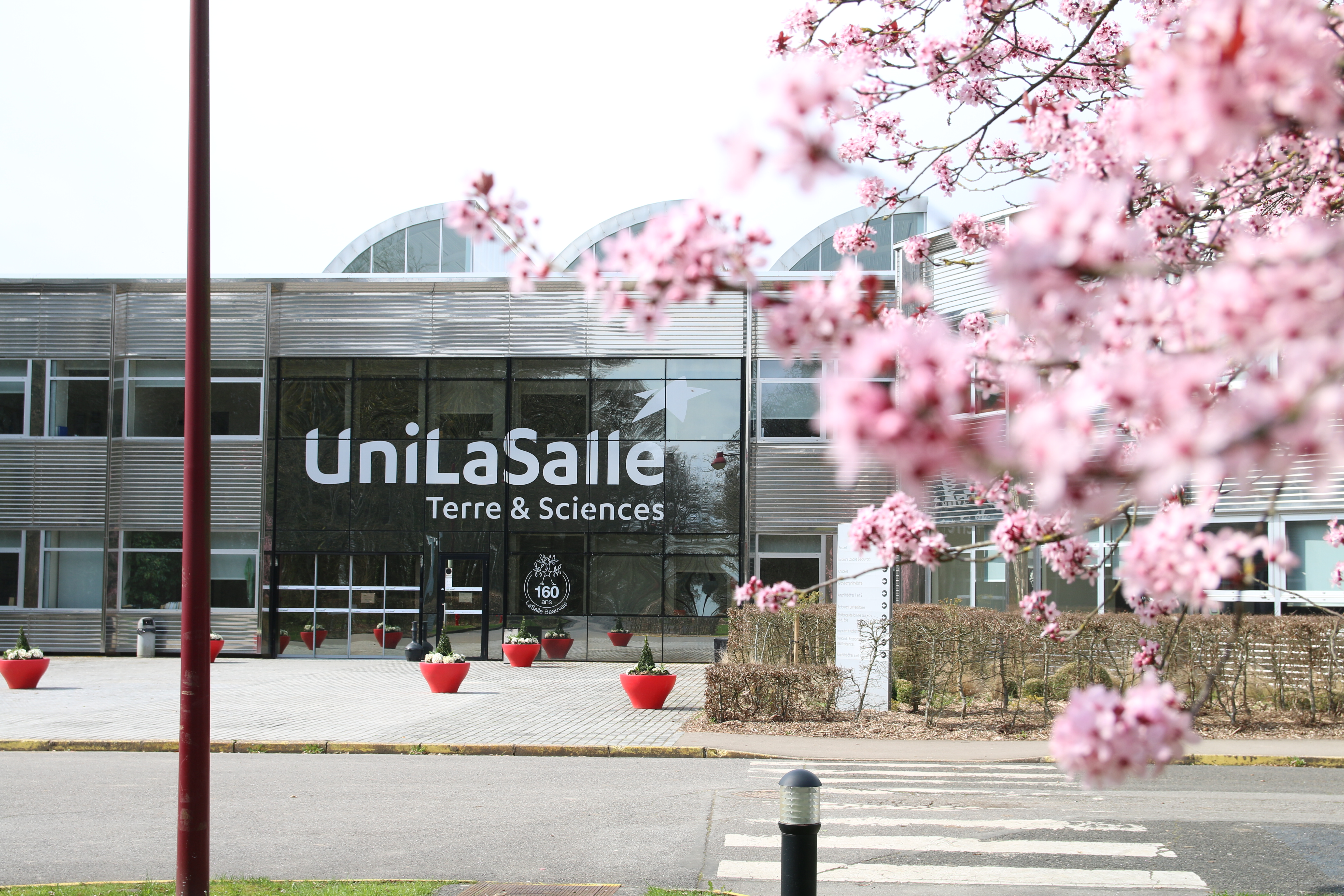 UniLaSalle is an engineering school in Earth Sciences, Life Sciences and Environment located in Beauvais and Rouen (Mont-Saint-Aignan). The Beauvais campus welcomes nearly 1,800 students. It consists of two academic buildings (the main one being shown in this picture), student residences, a university restaurant and sports facilities.